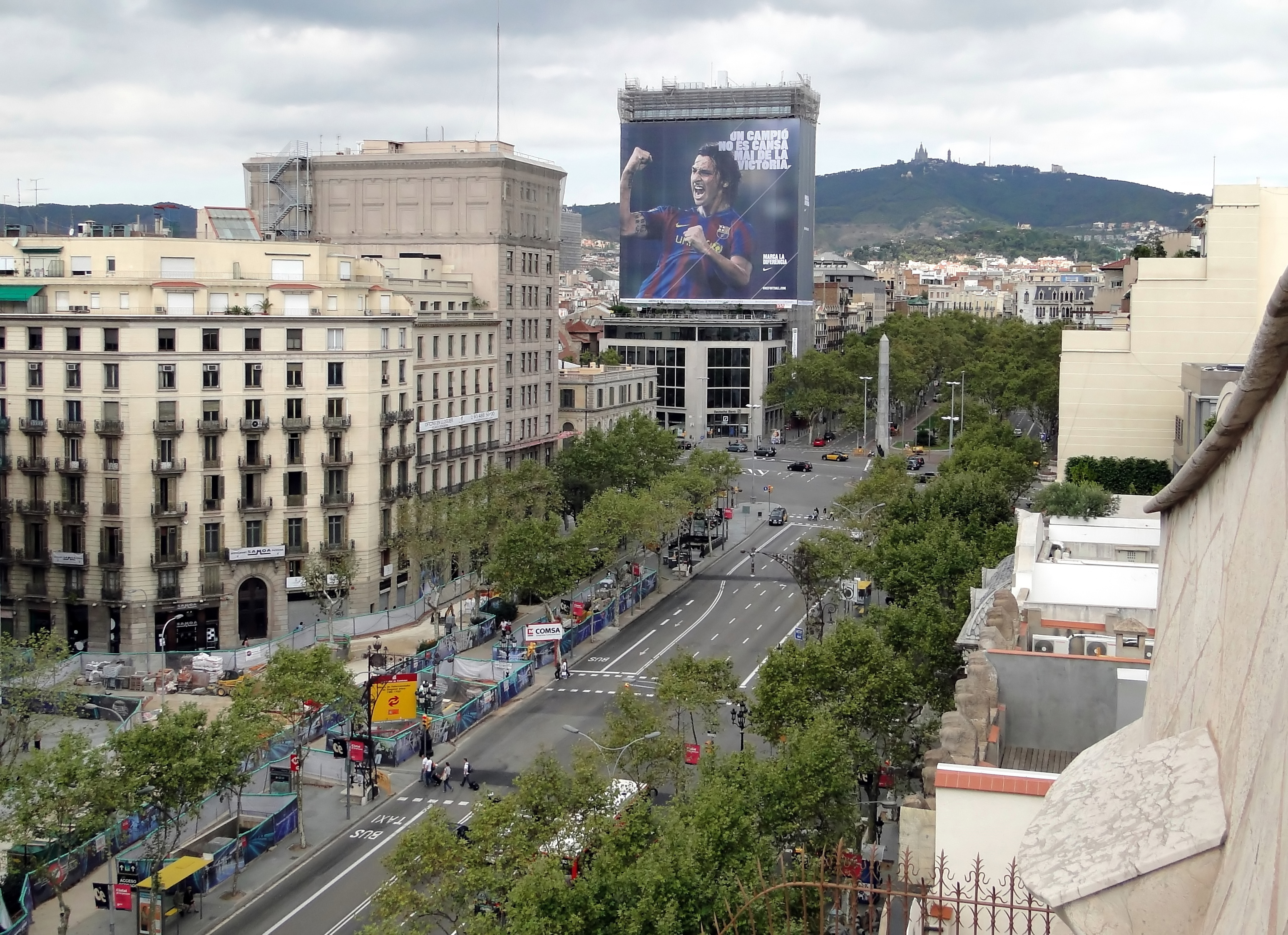 View of Passeig de Gràcia from Casa Milà, Barcelona, Spain. At the back we see a building covered with a huge ad depicting Zlatan Ibrahimović